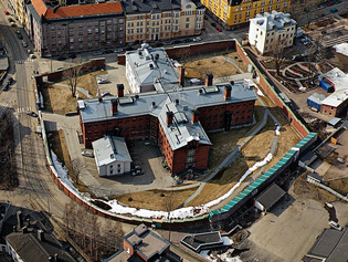 Aerial photo of Katajanokka prison, Helsinki